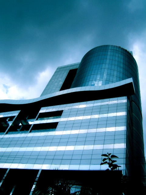 Photo of Bashundhara City shopping mall in Dhaka. It is the largest shopping mall in Bangladesh Photo taken by Niloy ( niloy.me AT gmail DOT com ). Used with creator's permission. For licensing issues, and copies of permission email, please leave a note at the uploader's talk page.